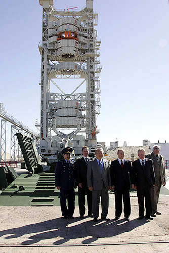 BAIKONUR, KAZAKHSTAN. Examination of the Proton carrier rocket launch complex.